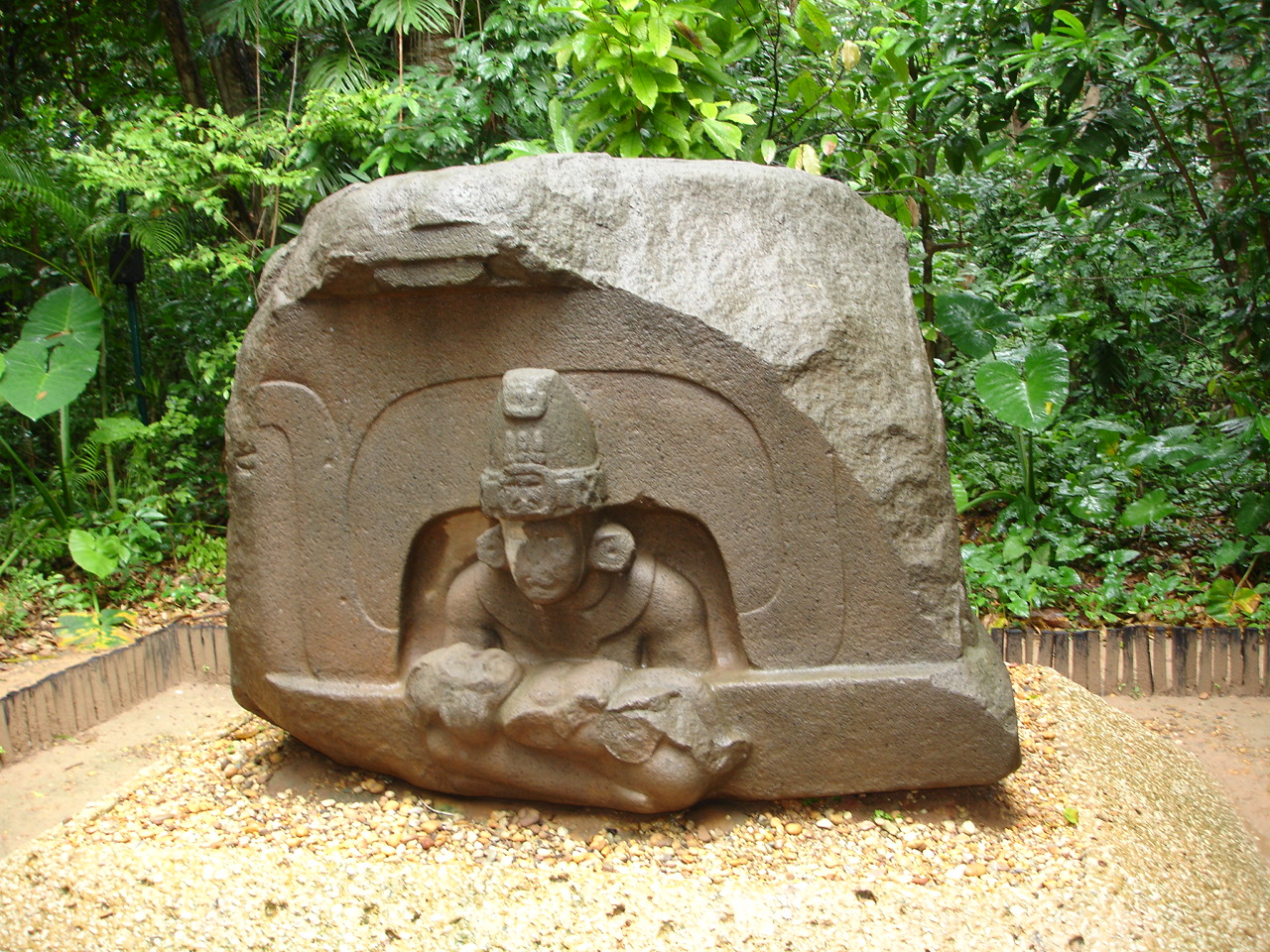 A frontal view of Altar 5, from La Venta